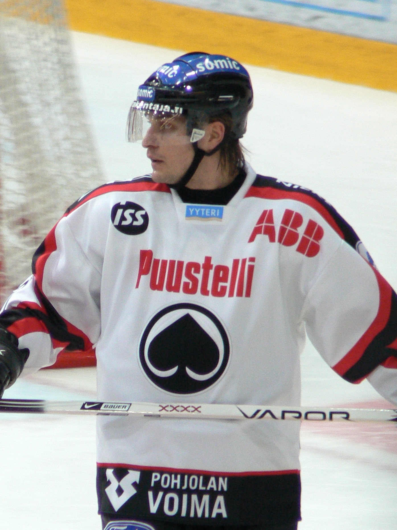 Finnish ice hockey defenseman Tapio Sammalkangas of Ässät Pori in October, 2008.